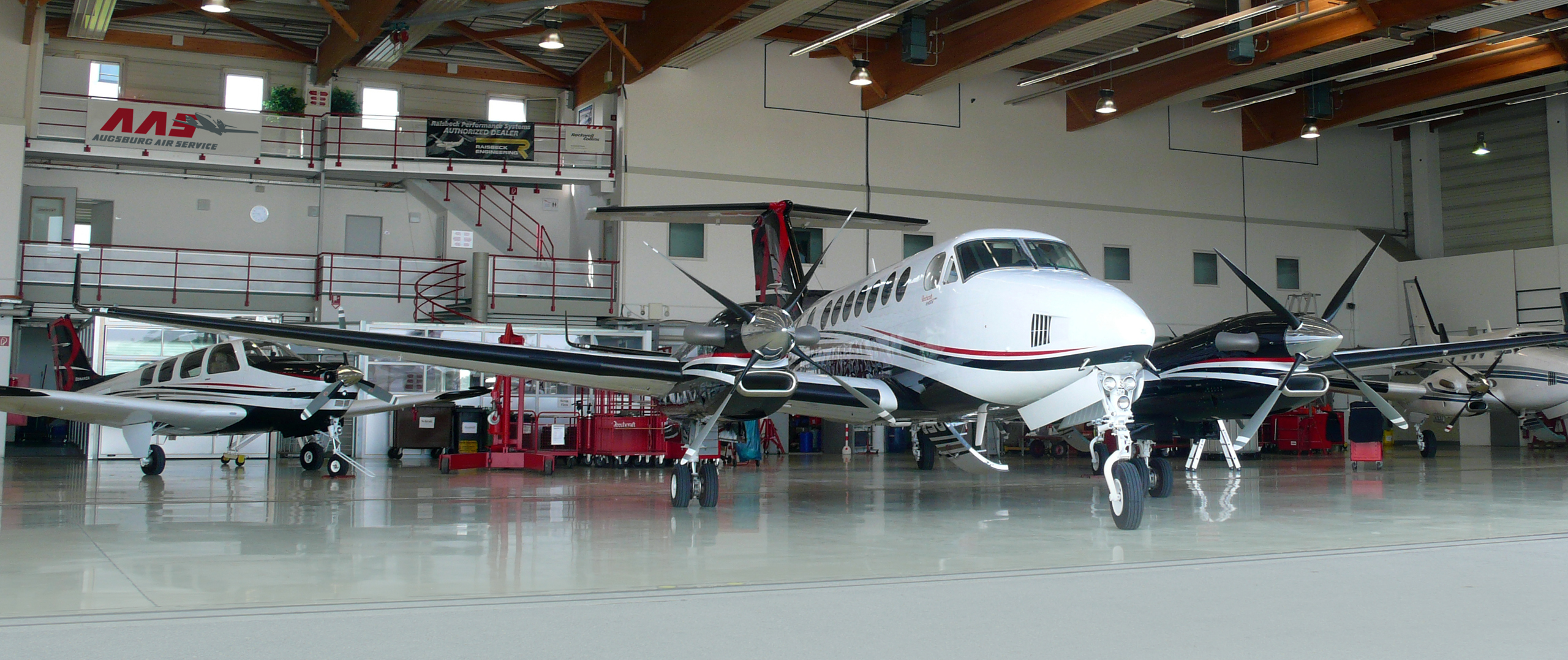 Inside the aircraft hangar of Augsburg Air Service